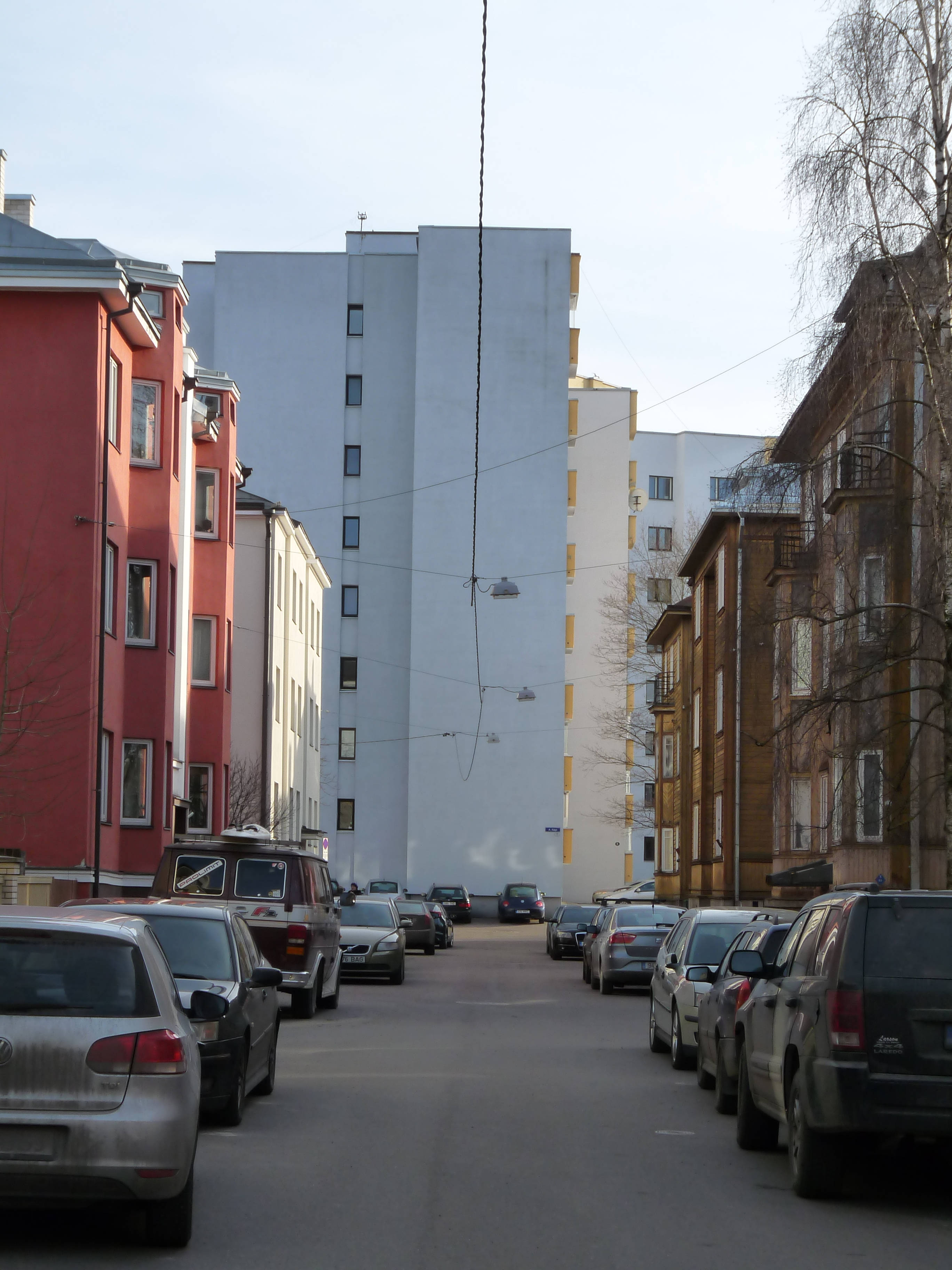 Kapi street in Tallinn, Estonia